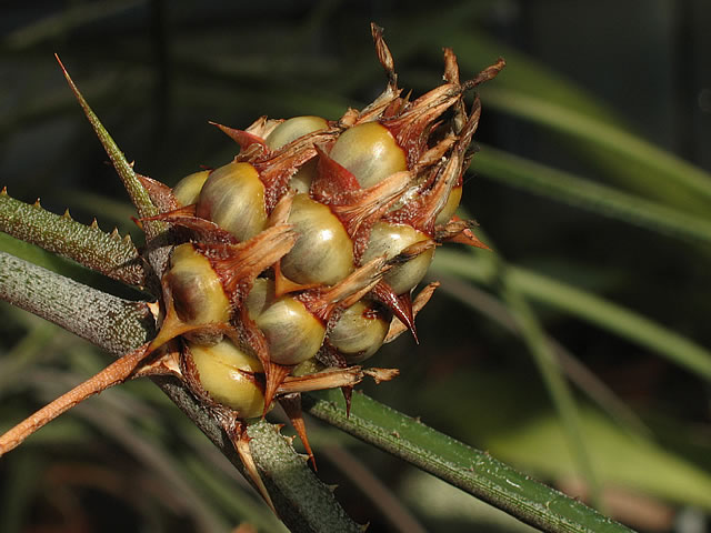 Acanthostachys strobilacea, in cultivation at the Botanical Garden of Heidelberg, Germany. The Original-imagefiles were lost during to a harddisk-crash, thats why no higher resolution is available.